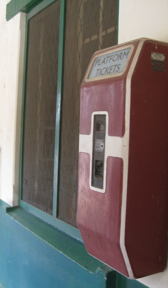 Platform ticket issuing machine at Tanga railway station, Tanzania